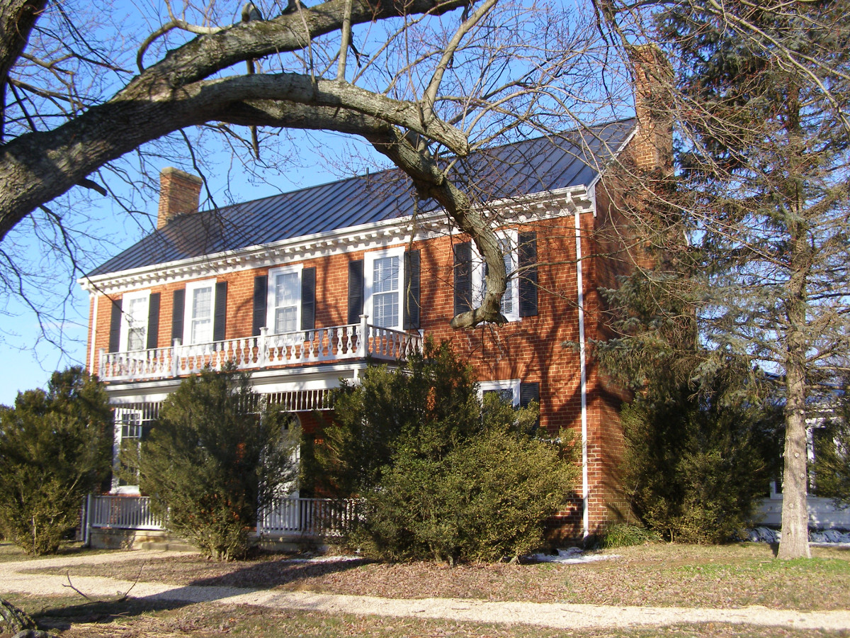 It has one chimney on both sides, is a two story brick building, and has shutters on each window.